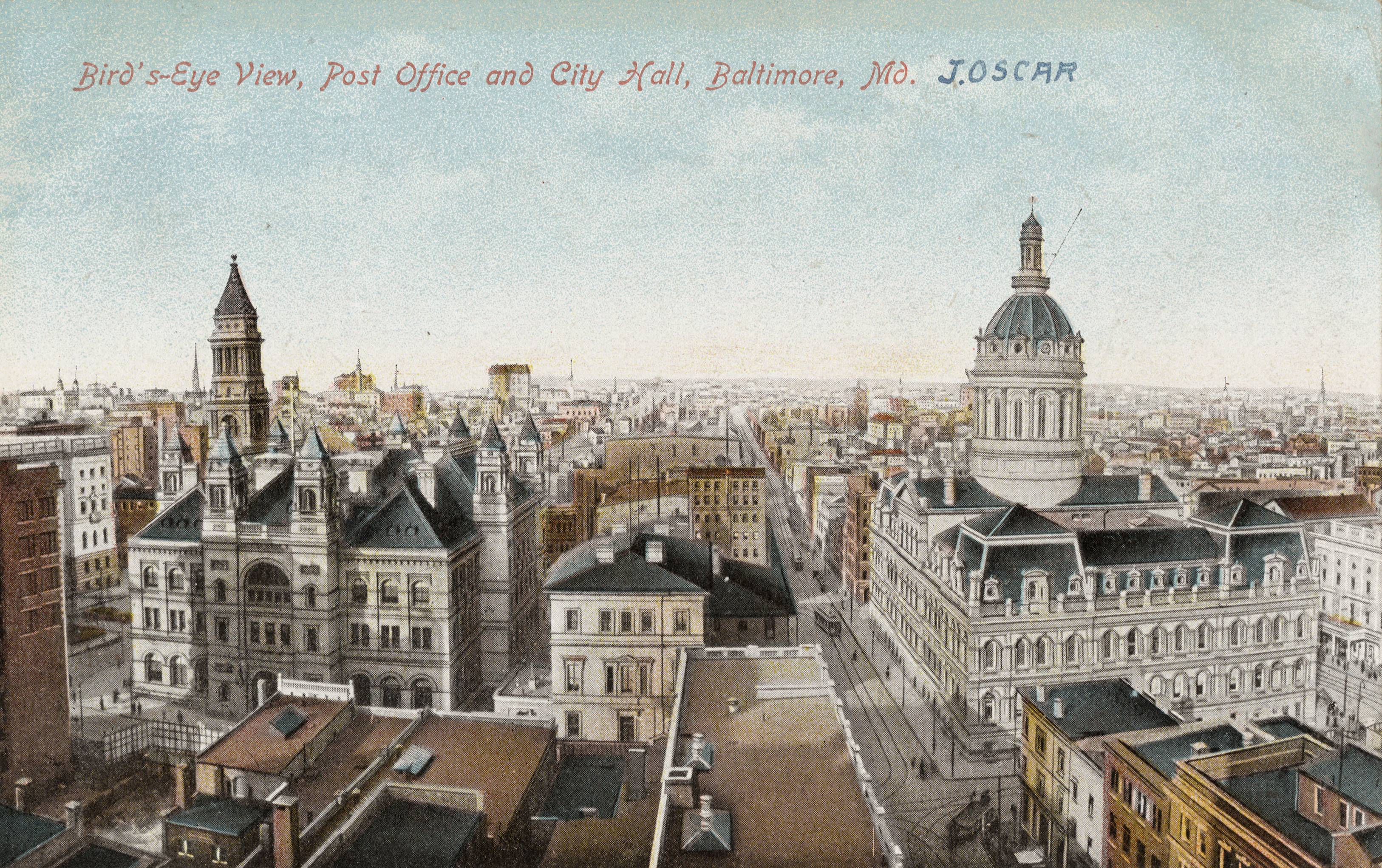 An aerial view of the Post Office and City Hall in downtown Baltimore, Maryland, circa 1907-1914. Postcard number: 137.